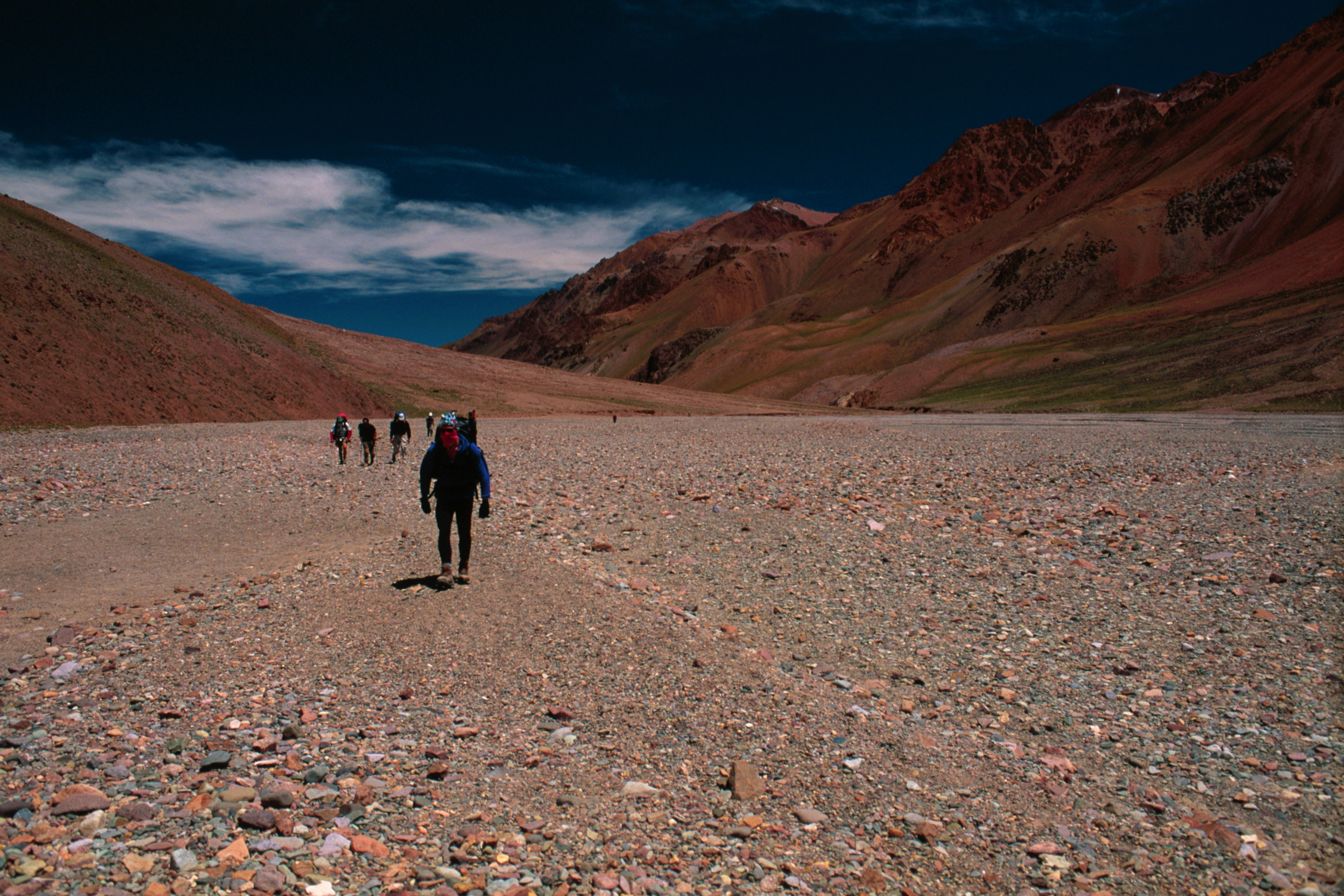 Trekking in to Aconcagua, Argentina.